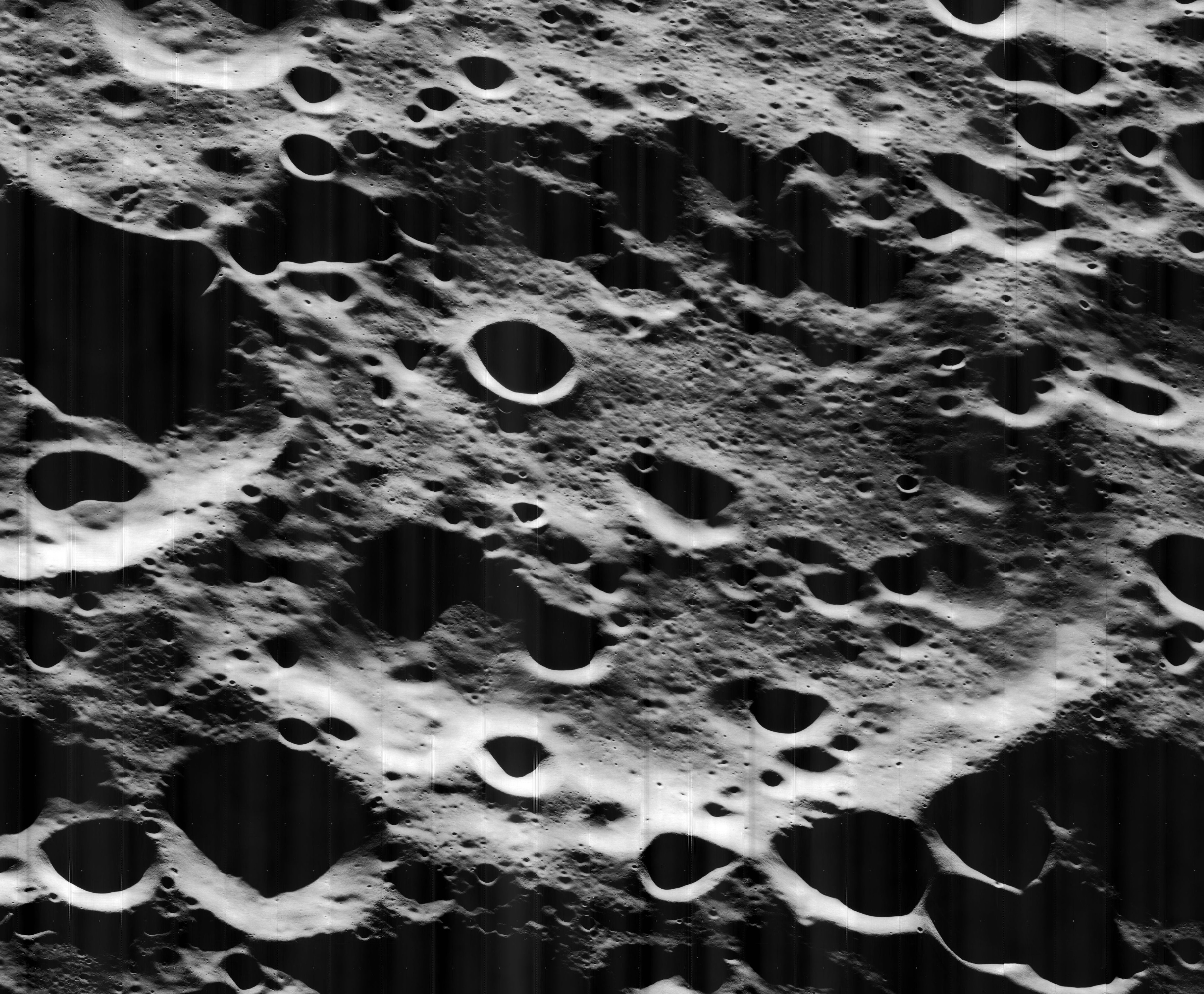 Oblique view of Debye, on the far side of the moon, facing west.